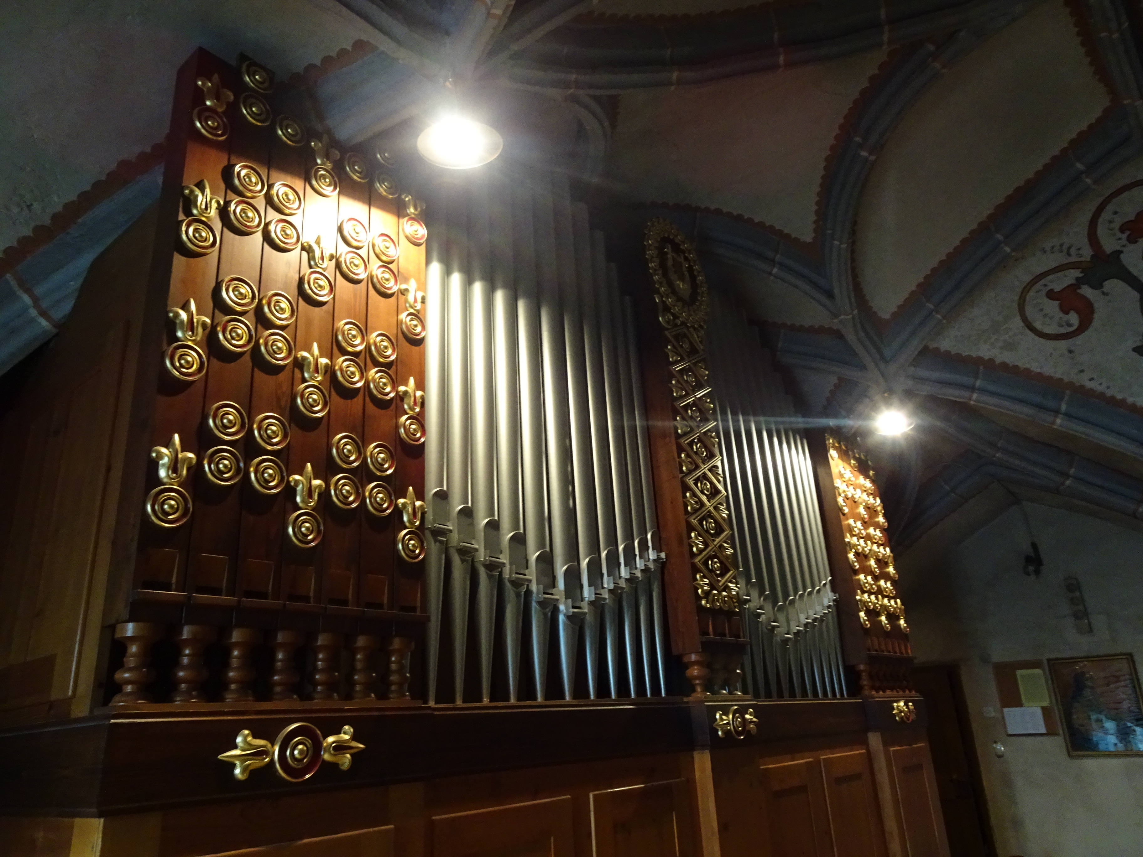 st. George Archparish church , Slovenske Konjice, Slovenia